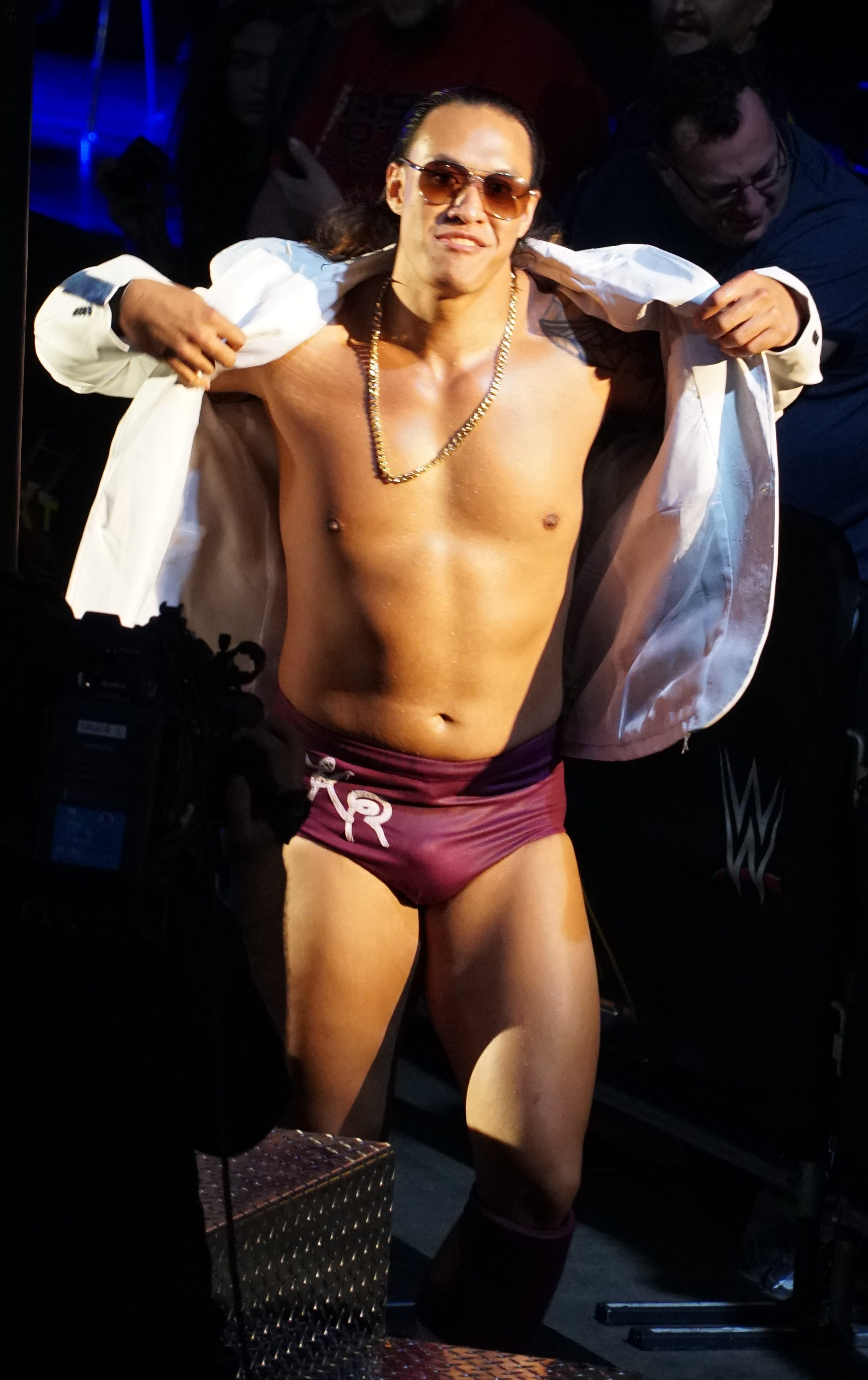 NOLA 2018 - WWE Axxess - Thursday - Akira Tozawa Vs Kona Reeves Akira Tozawa def. Kona Reeves ( Deux semaines a Nola pour la ville et pour WWE Wrestlemania XXXIV Two weeks Nola for the city and for WWE Wrestlemania XXXIV )